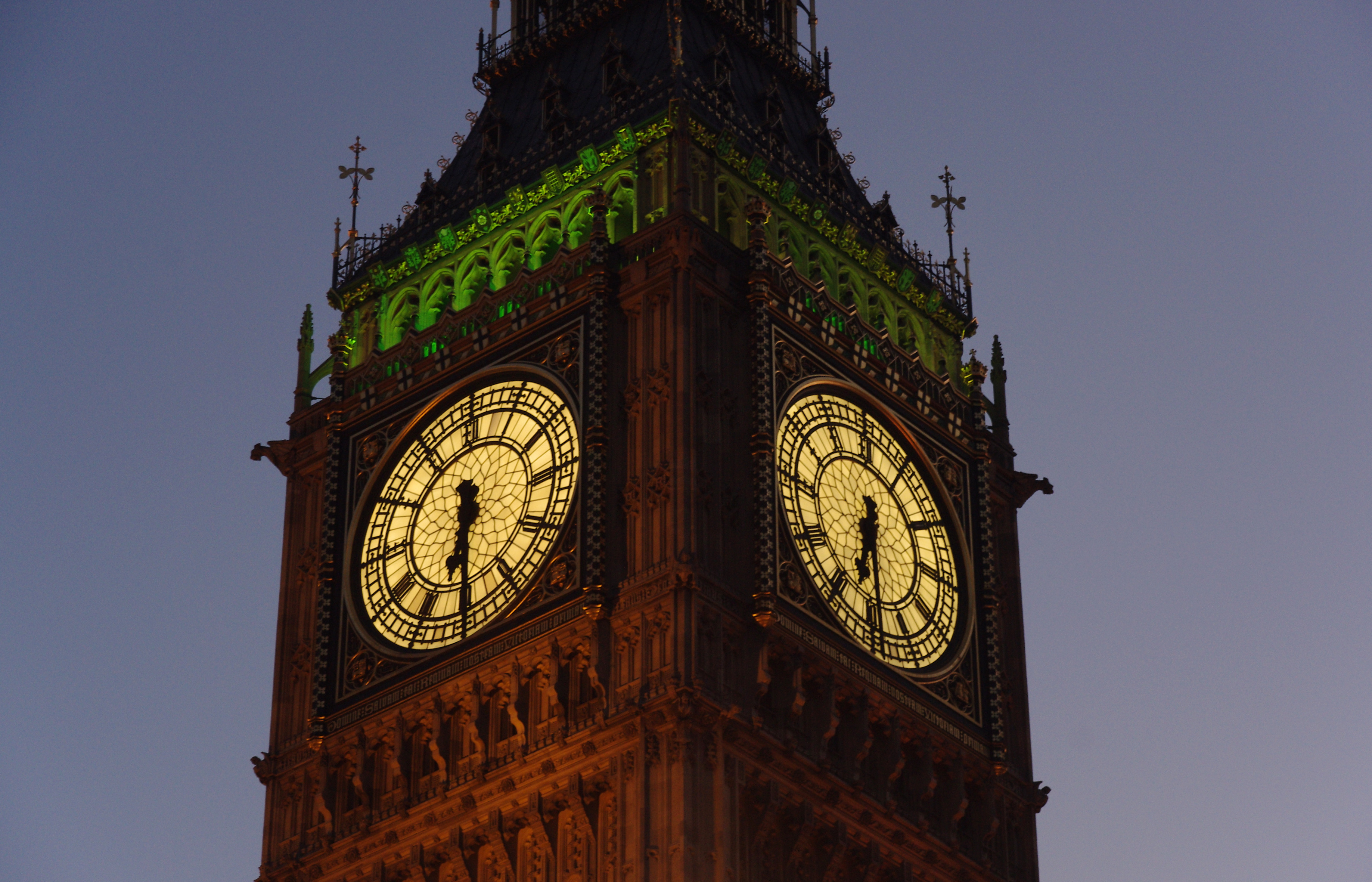 Clockface of Big Ben at the Palace of Westminster.